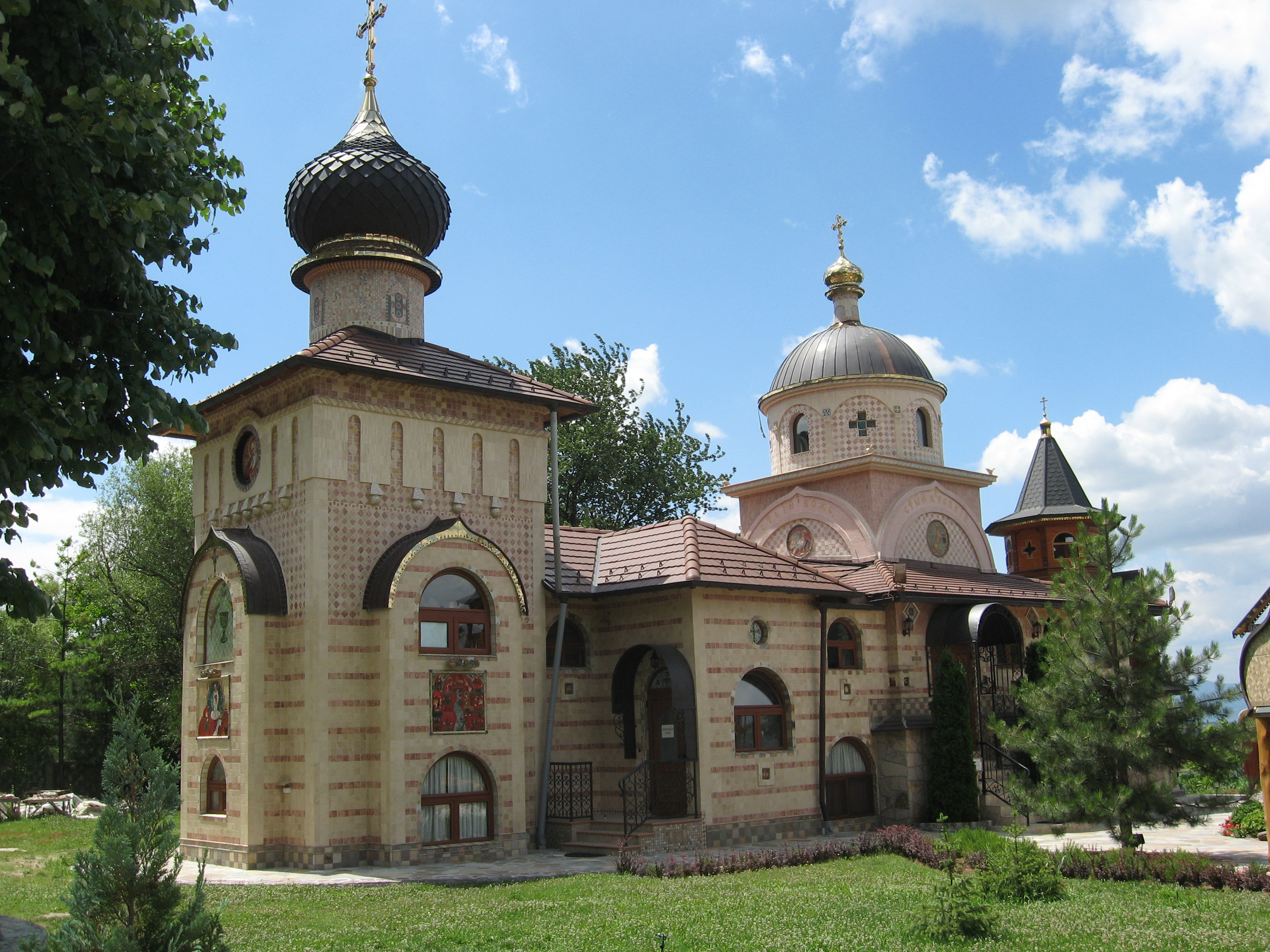 Lešje Monastery - New Church